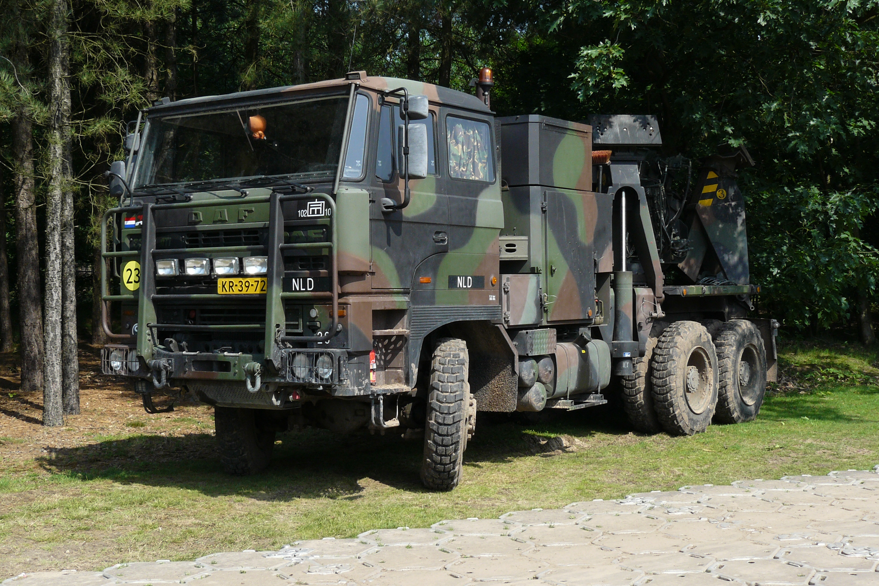 DAF YBZ-3300 recovery vehicle, picture taken on Open Day Dutch Army 2008